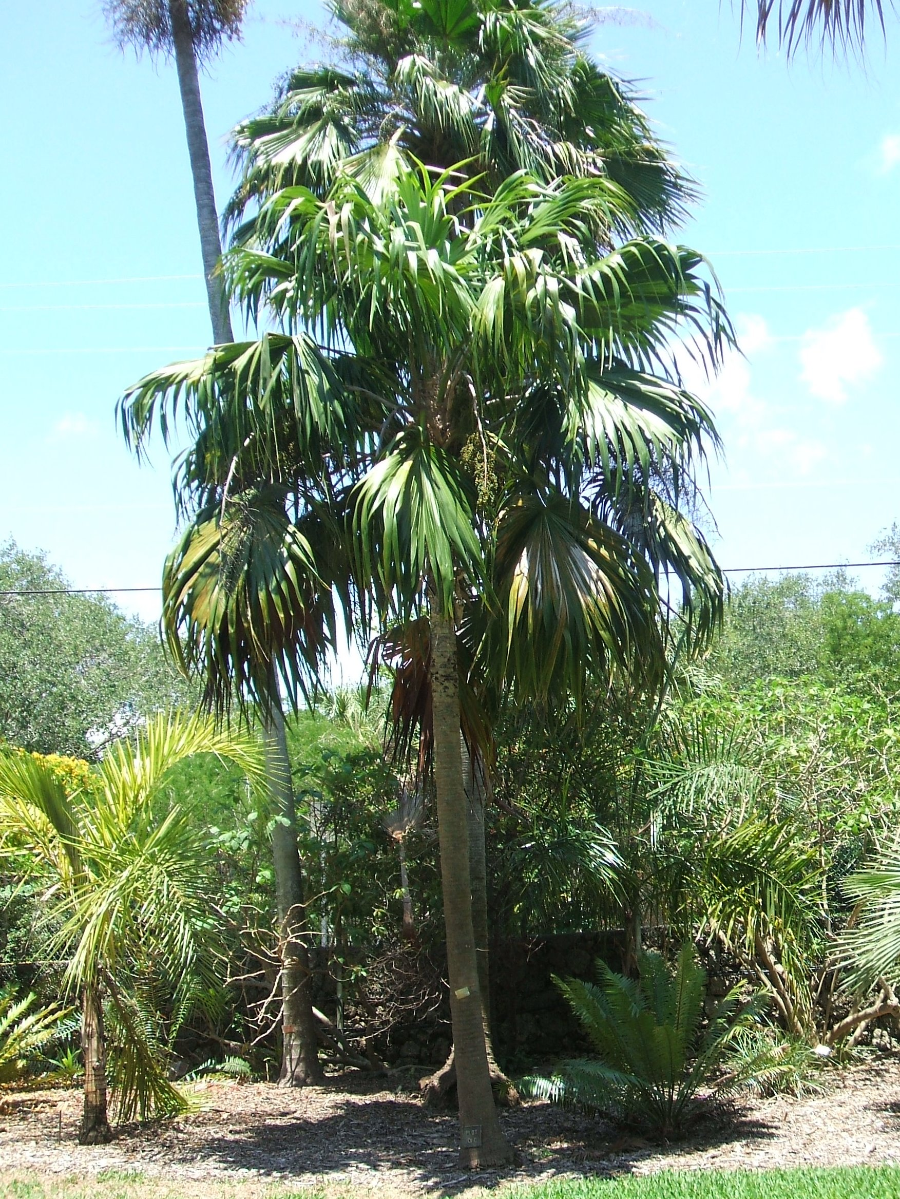 Thrinax excelsa at Fairchild Tropical Botanic Garden, Coral Gables, Florida, USA.